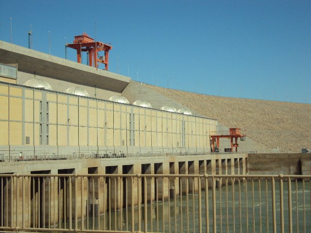 Sudan side of the Merowe Dam4